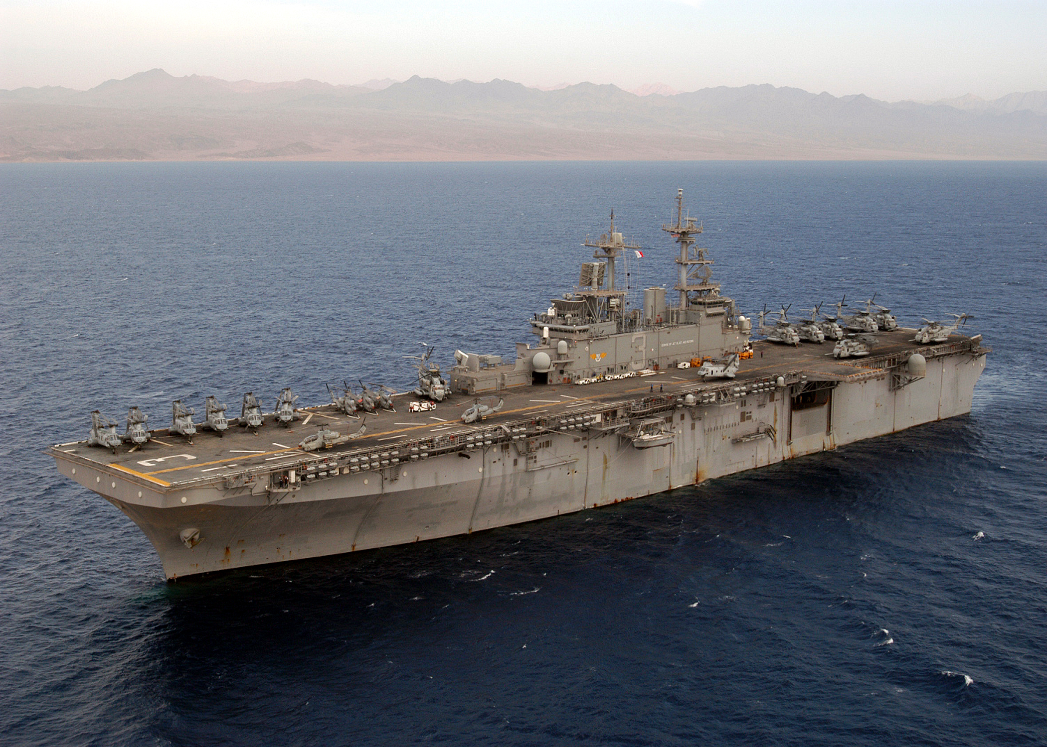 The Red Sea (Jun. 4, 2003) -- The amphibious assault ship USS Kearsarge (LHD-3) steams in the Gulf of Aqaba while providing support for the President’s visit to Sharm el-Sheik, Egypt and Aqaba, Jordan for summits with Arab leaders. Kearsarge is on its way home from deployment in support of Operation Iraqi Freedom.